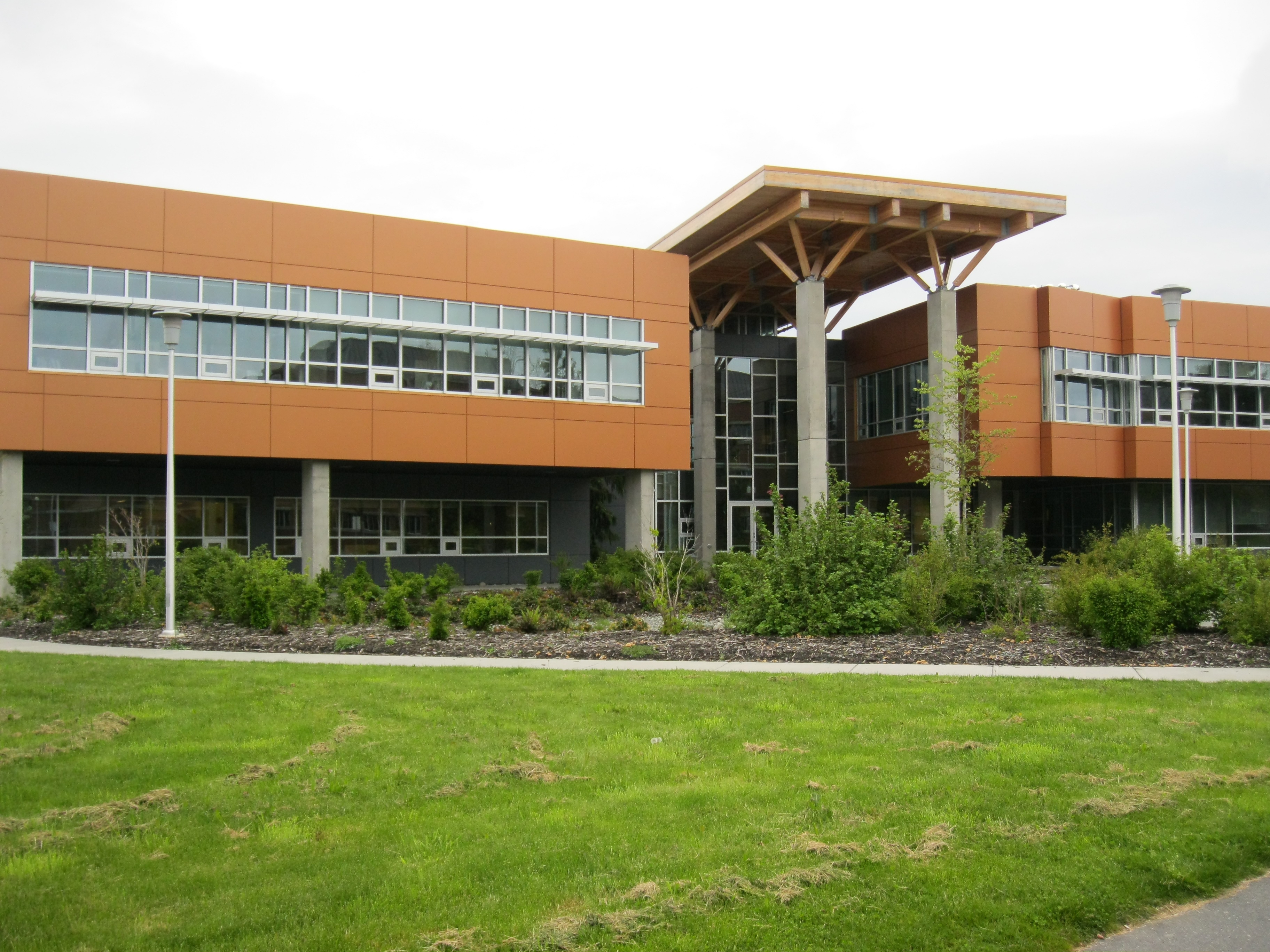 Administrative Services. READ INFO IN PANORAMIO/COMMENTS